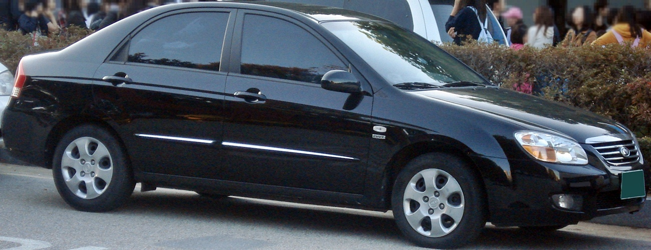 Kia New Cerato